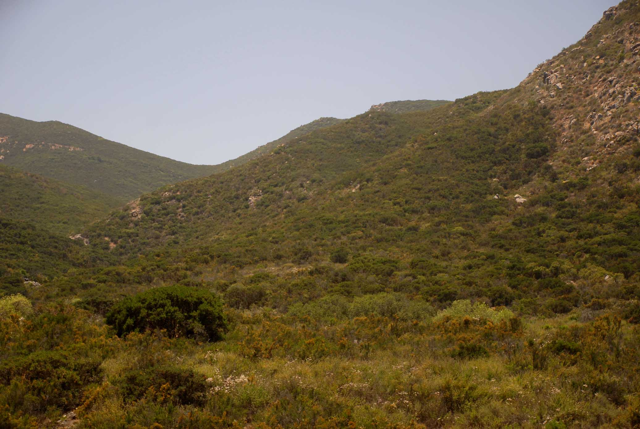 Location of a San Diego County old-growth Mission manzanita (Xylococcus bicolor) The California chaparral and woodlands plant community, in the Laguna Mountains of the Peninsular Ranges. Note: close-up photo also contributed, that specimen is in shown in this photo is in the far left hand corner.